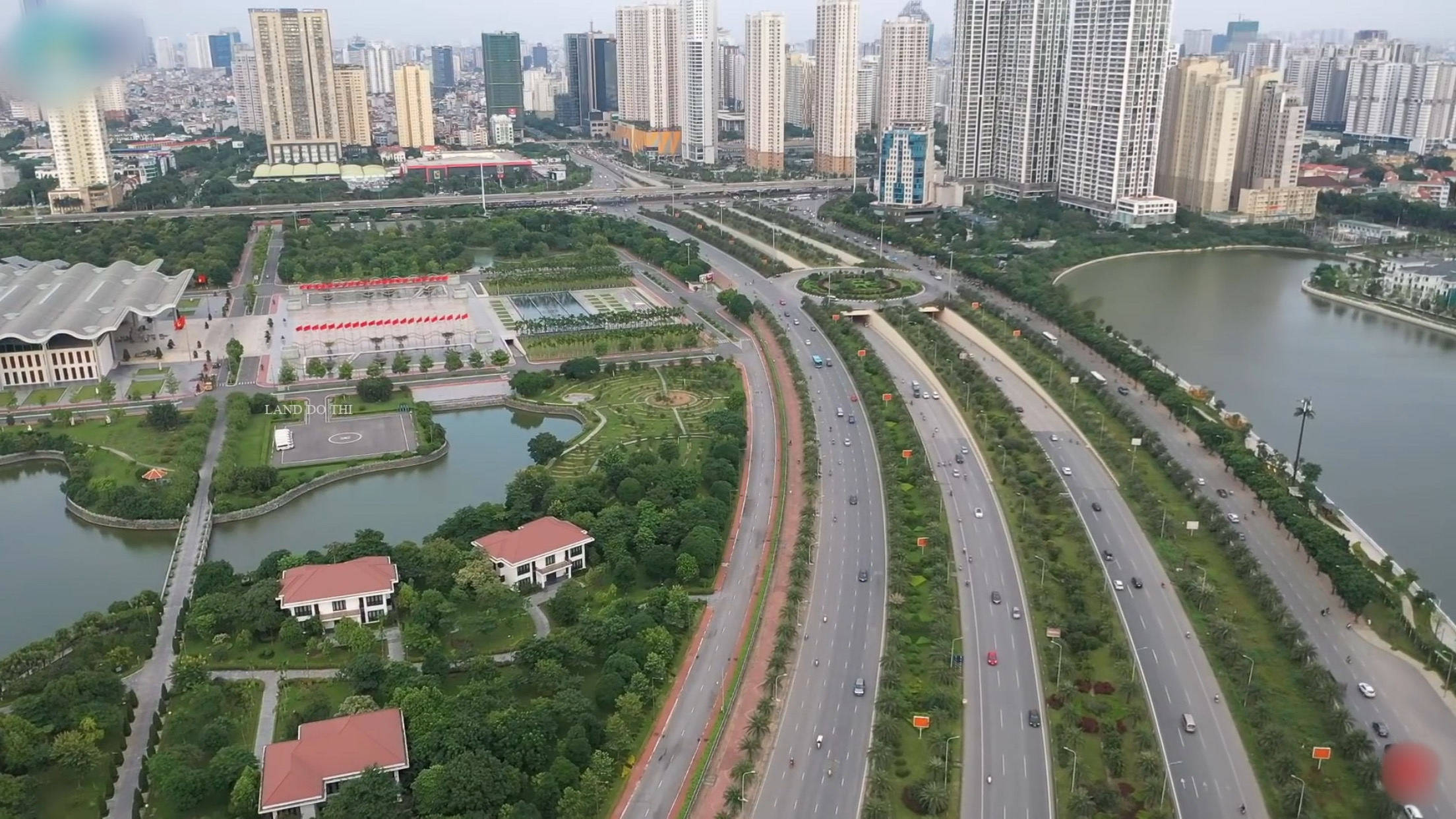 Hihahaha